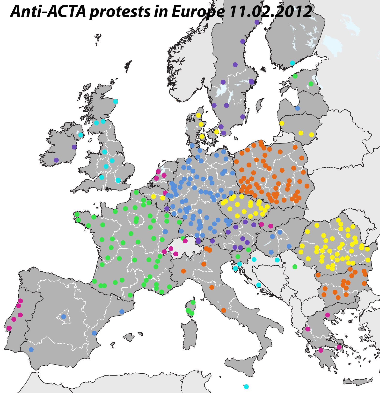 Anti ACTA protests in Europe 11.02.2012